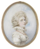 Miniature portrait of Arabella Williams (1740-1797), wife of Sir James Hamlyn, 1st Baronet (1735-1811) of Edwinsford, Carmarthenshire, Wales, and Clovelly Court in Devon, Member of Parliament for Carmarthen 1793-1802 and Sheriff of Devon 1767-8. School of Richard Cosway, RA (British, 1742-1821). A full-length double portrait on paper by Cosway of the Hamlyns, walking arm in arm and wearing Van Dyck costume, exists in the Victoria & Albert Museum (E.11-2002). Gold frame with pierced suspension loop, blue glass to the reverse. Oval, 85mm (3 3/8in) high. One of pair with matching portrait of her husband. Pair sold for £1,375 inc. premium at Bonhams Auctioneers, Knightsbridge, London, auction 20767: Fine Portrait Miniatures, 30 May 2013, lot 98[1]